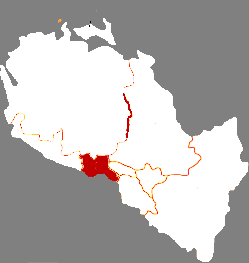 Location of Xigu district in Lanzhou city, China